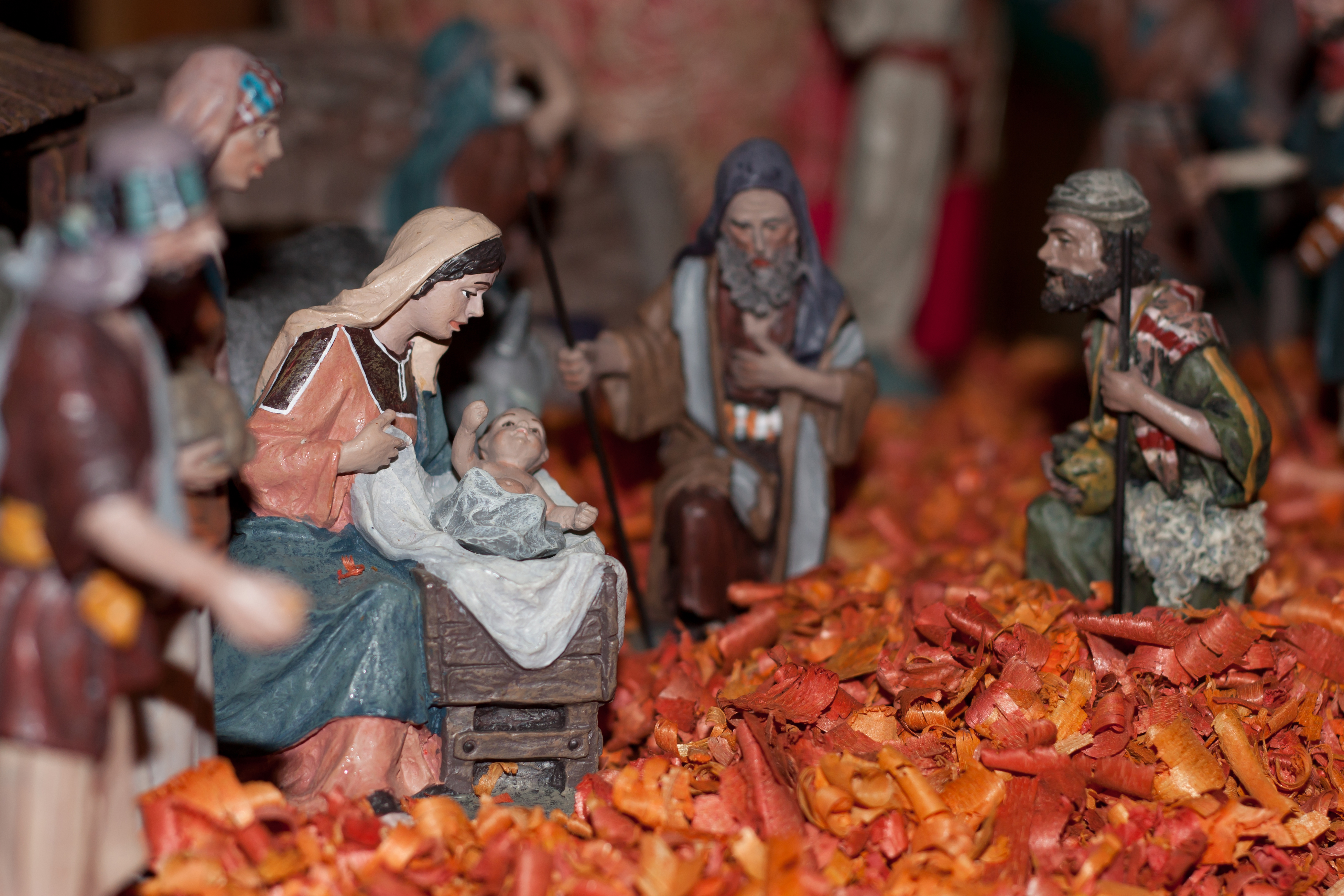 Nativity scene - santons featuring the adoration by the shepherds.